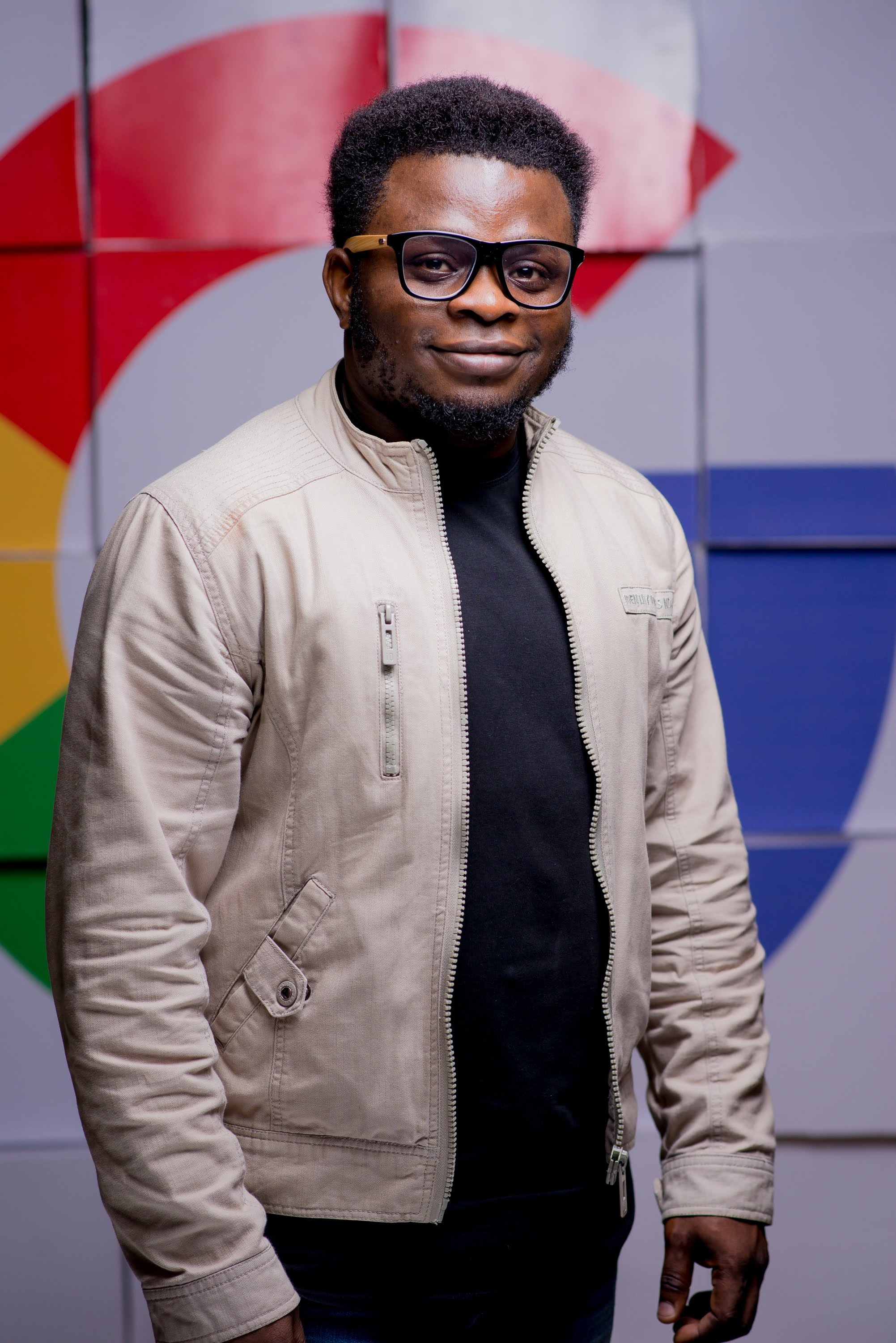 Taiwo Kola-Ogunlade